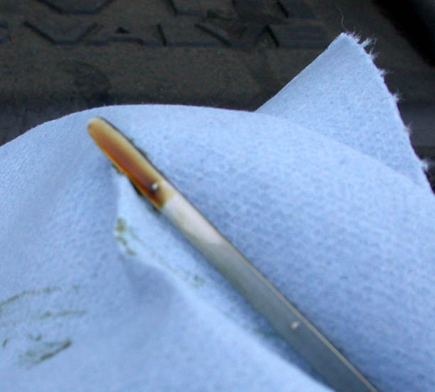 Dipstick for measuring the level of motor oil in an automobile.